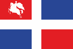 National Guard of Georgia flag (2018)